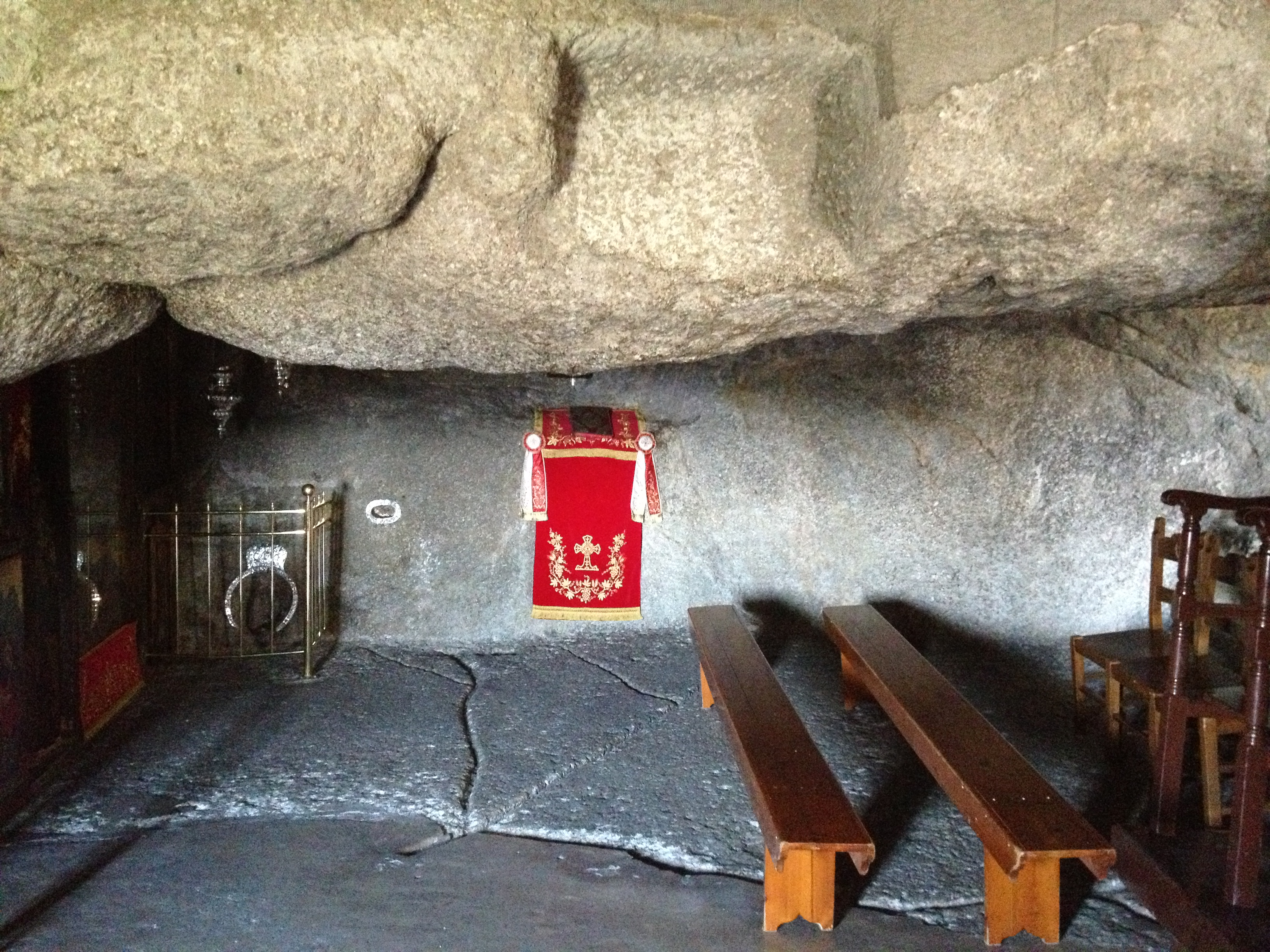 Cave of the Apocalypse, Patmos.